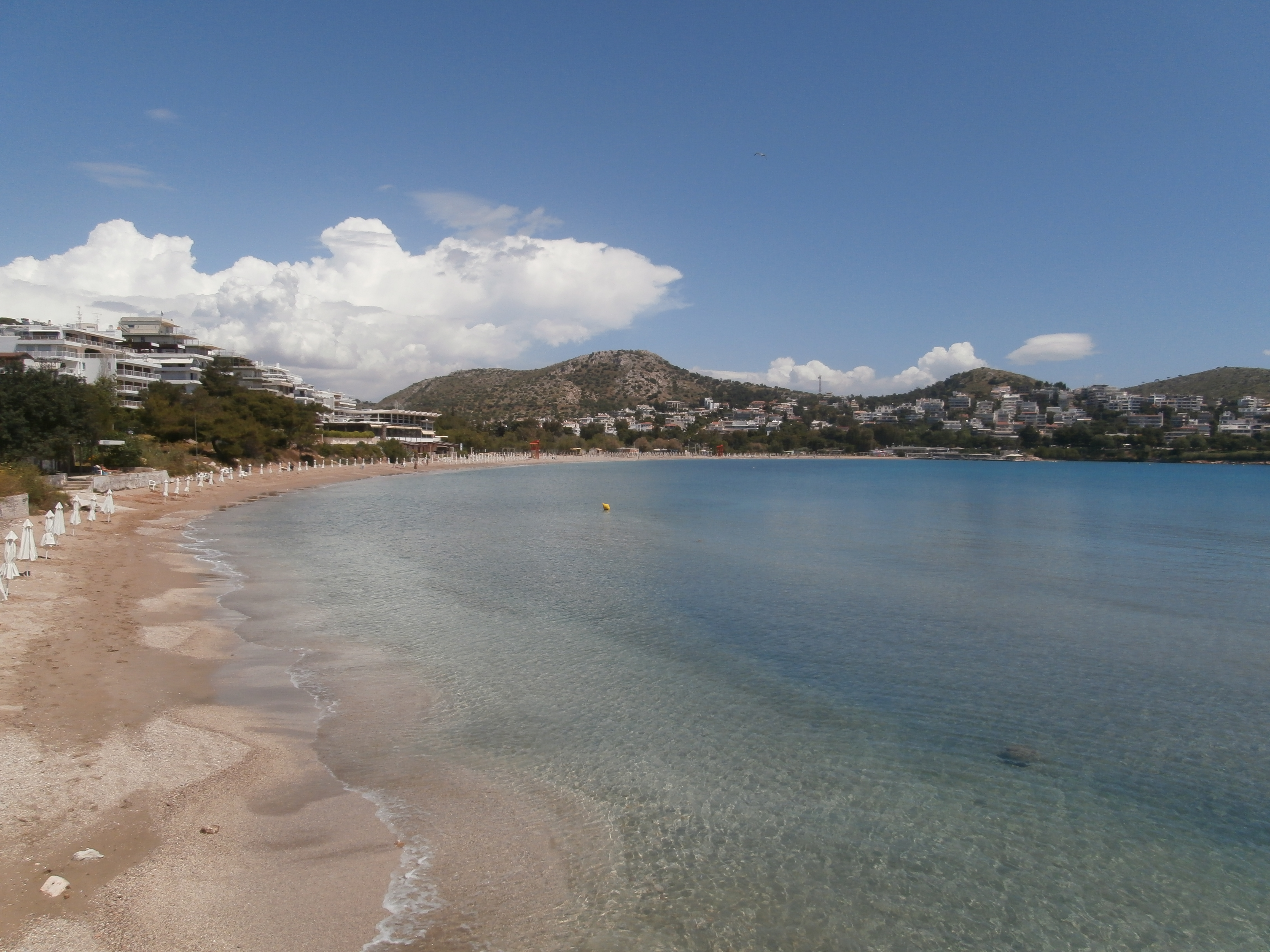 View of Vouliagmeni